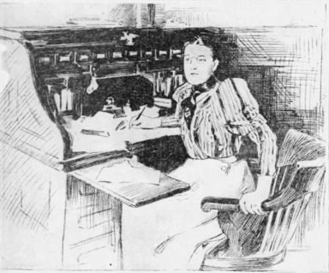 Sketch of Elise Mercur Pittsburgh's first woman architect in her office in 1898